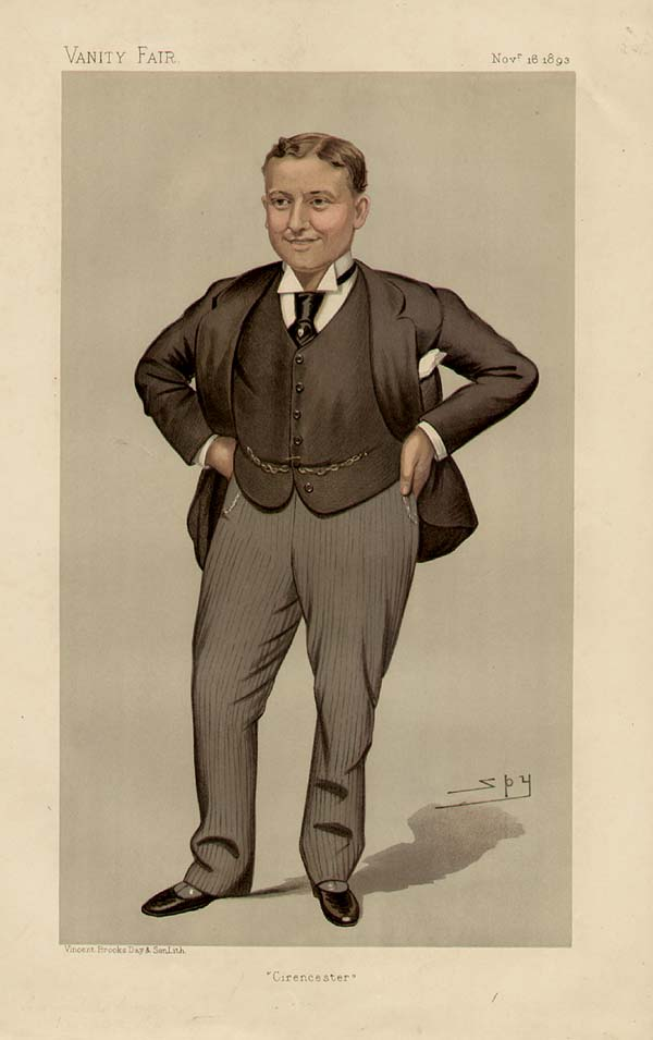 Caricature of Mr Harry Lawson Webster Lawson MP. Caption read "Cirencester".